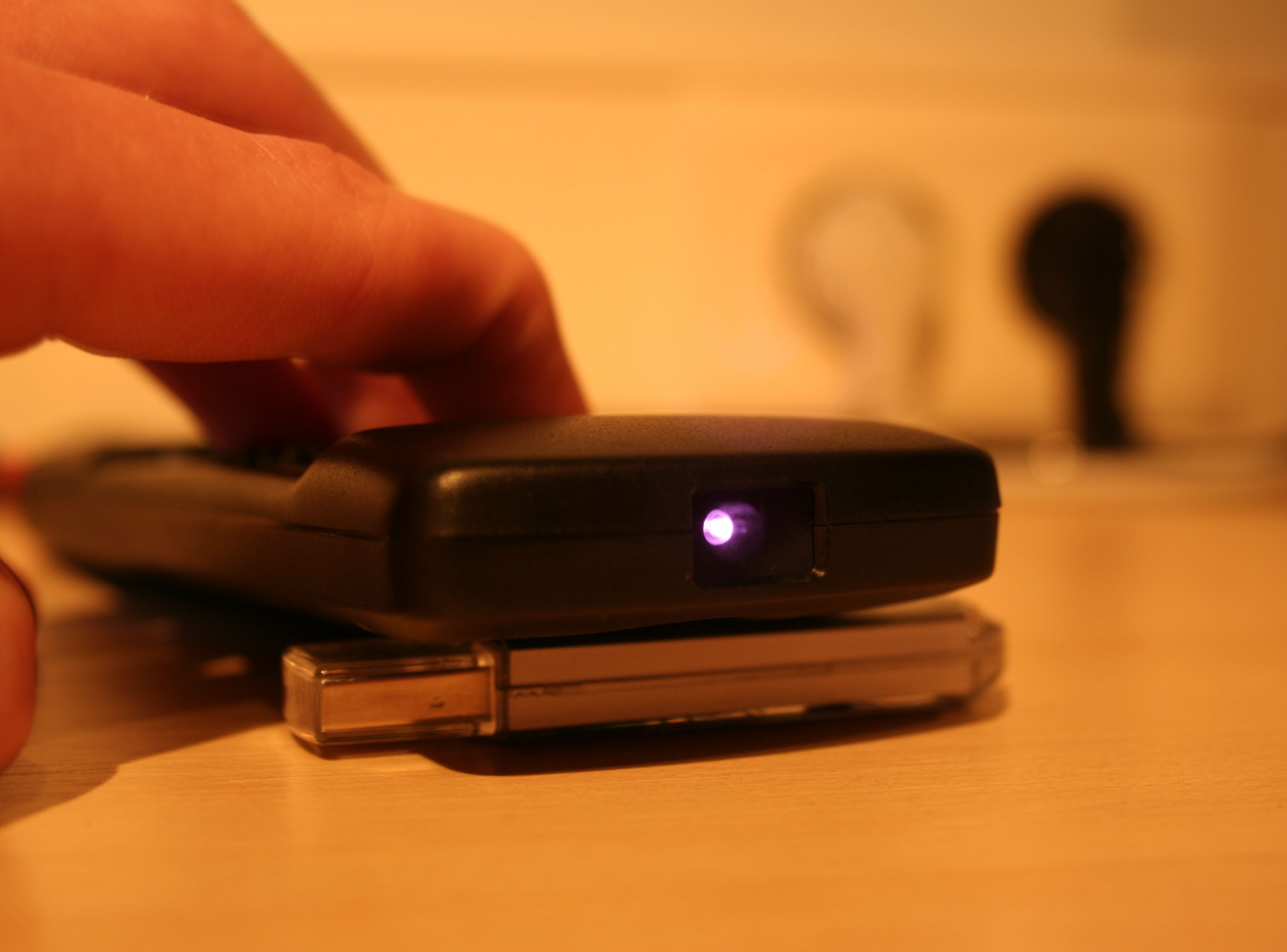 Infrared led inside remote